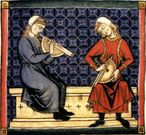 medieval zummara players